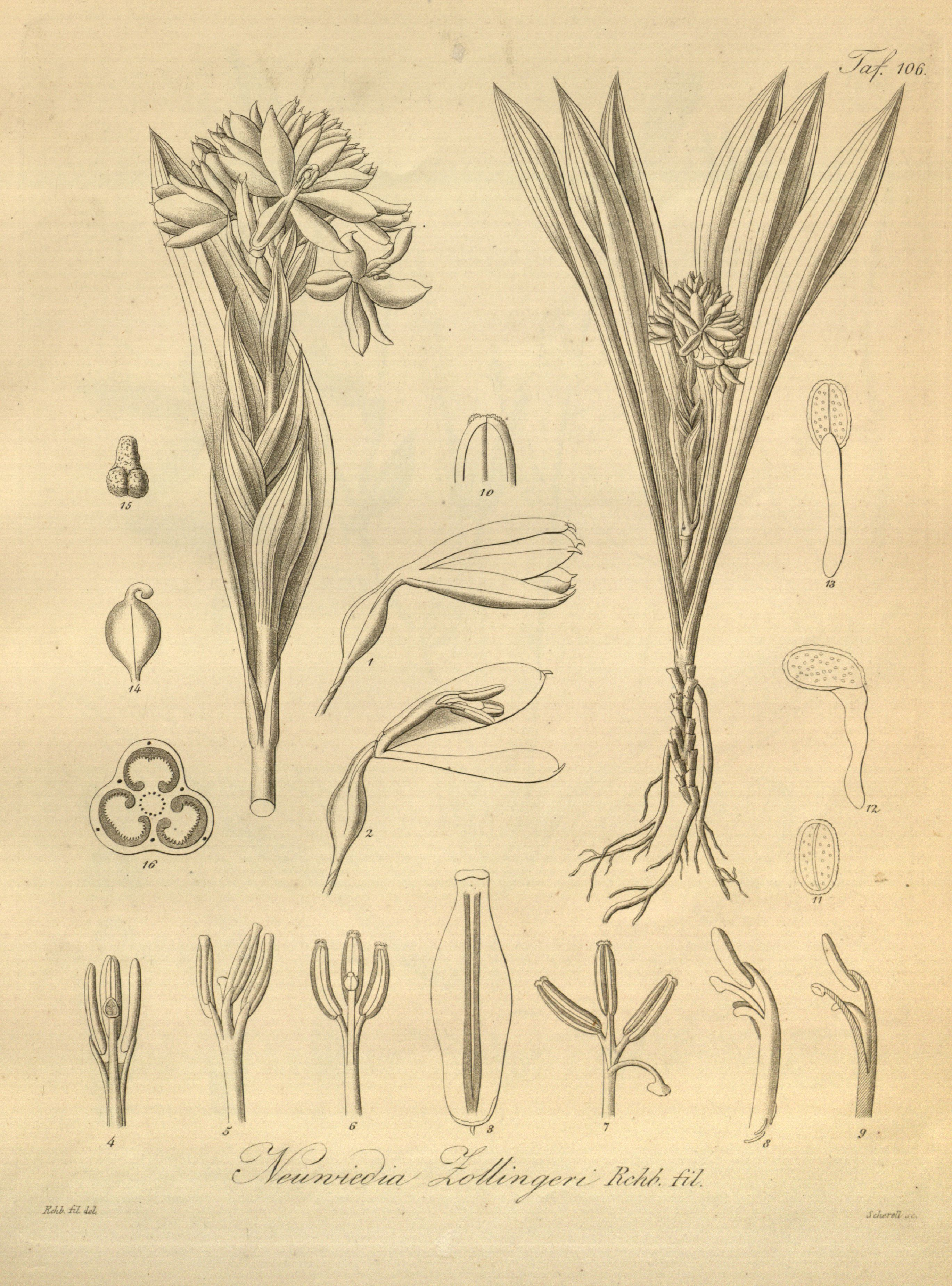 Illustration of Neuwiedia zollingeri